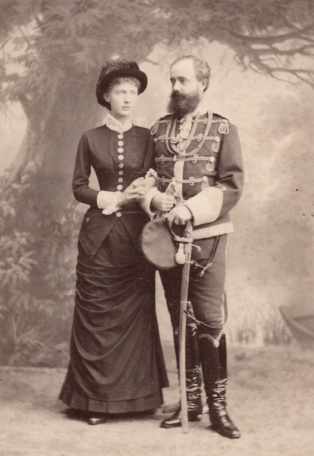 Engagement photo of Princess Maria Anna of Saxe Altenburg and Prince Georg of Schaumburg Lippe